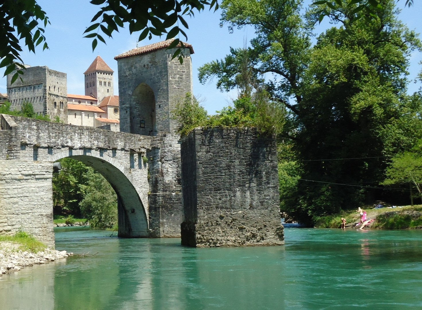 View up to Medieval village of Sauveterre de Bearn with the Pont de la Legende (foreground). Behind this is Tour Monreal and on the remparts is the 12C church St Andre.